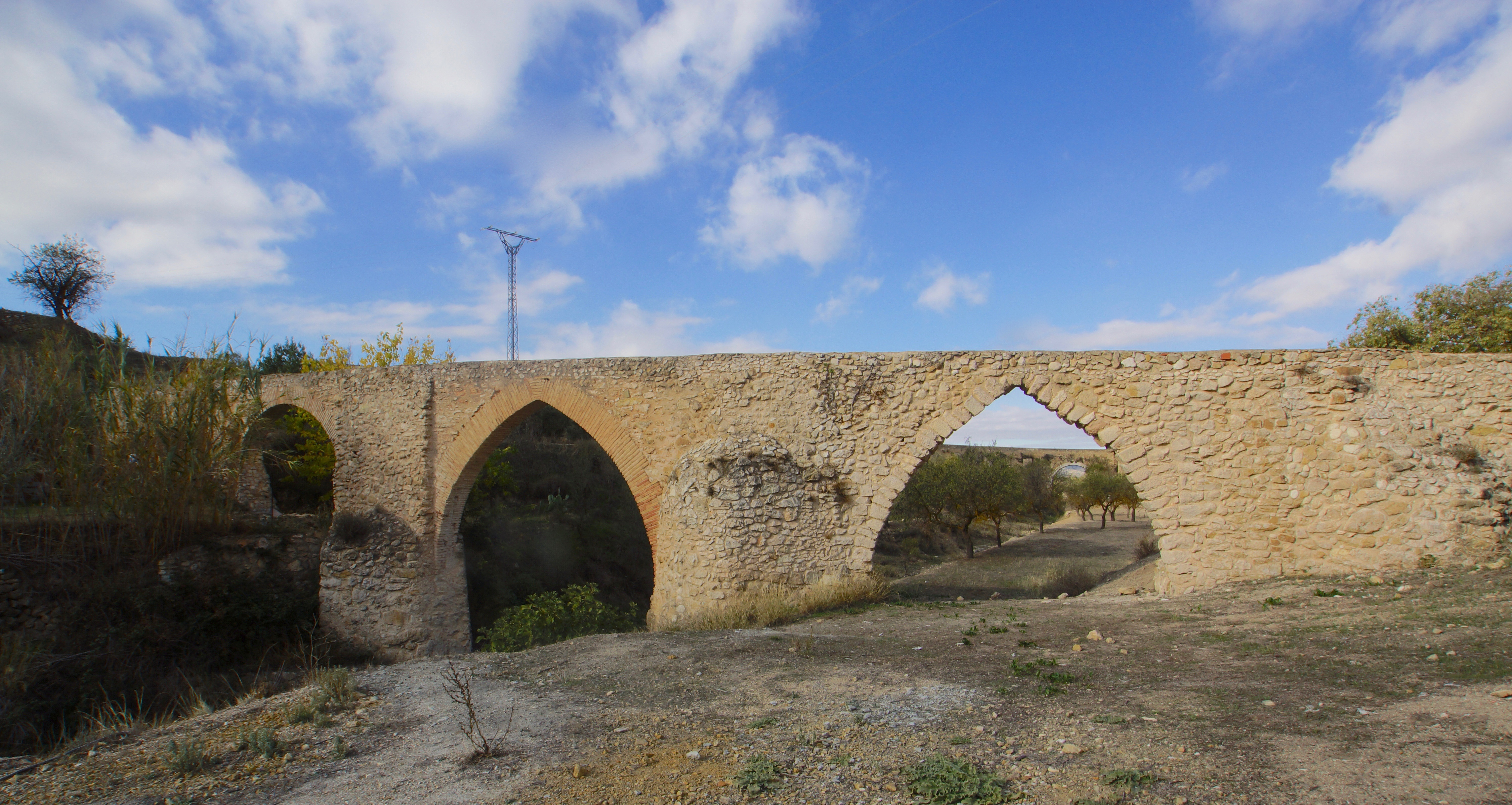 Biar, Valencian Country: Aqueduct, eastern side